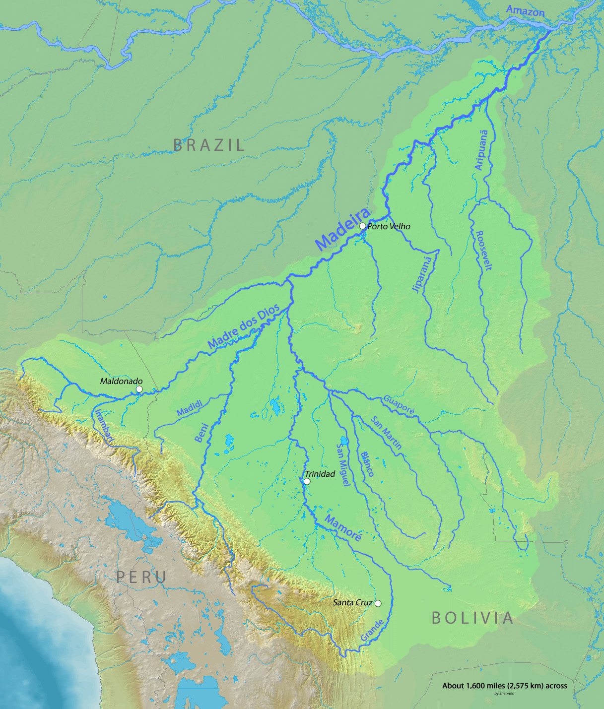 Map of the Madeira River watershed, tributary to the Amazon River in Brazil, Bolivia, and Peru